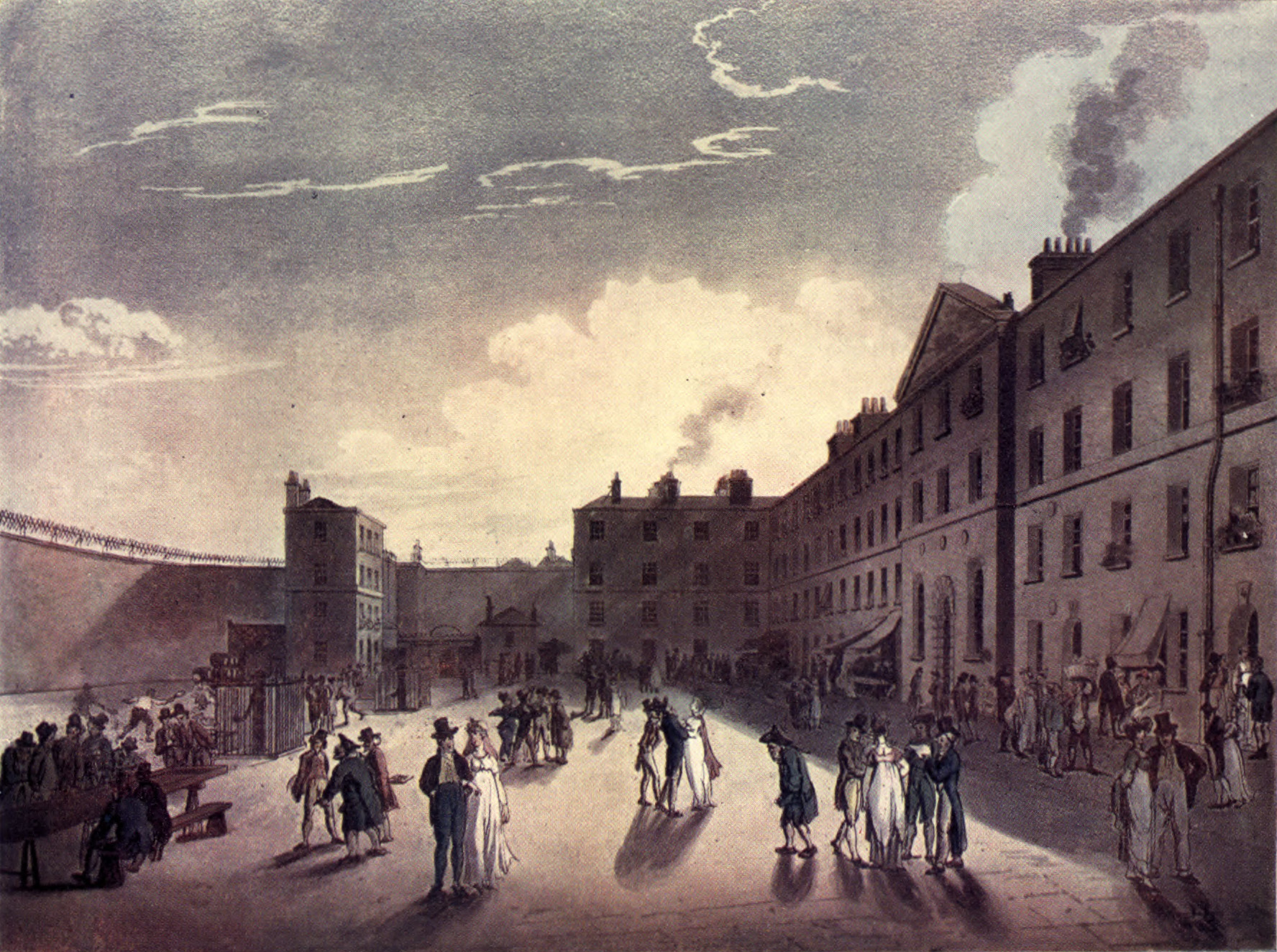 King's Bench Prison